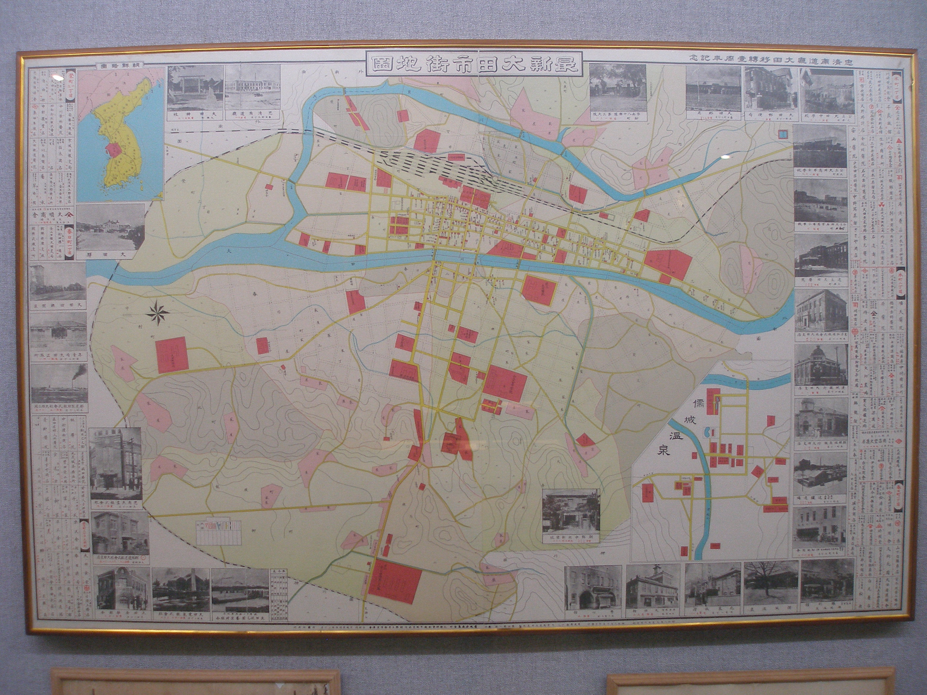 Old map of Daejeon, South Korea, published in 1934